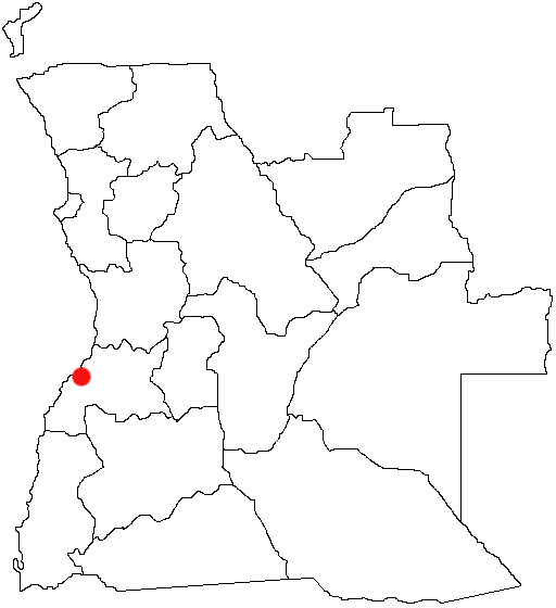 Benguela, Angola Location Map; created with the GIMP. Made by User:Acntx.